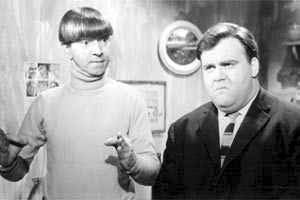 Argentine actors Carlitos Balá (b.1925) and Javier Portales (1937-2003).